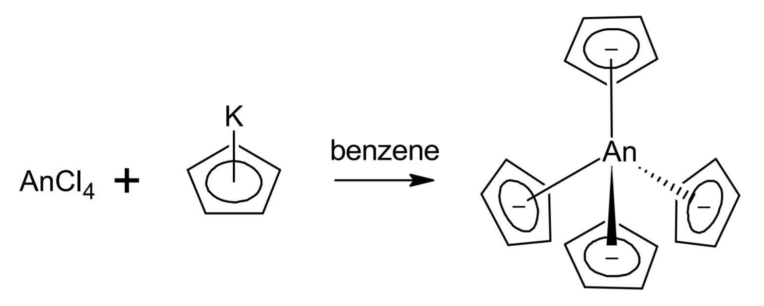 the synthesis of tetrakis cyclopentadienyl actinide complexes